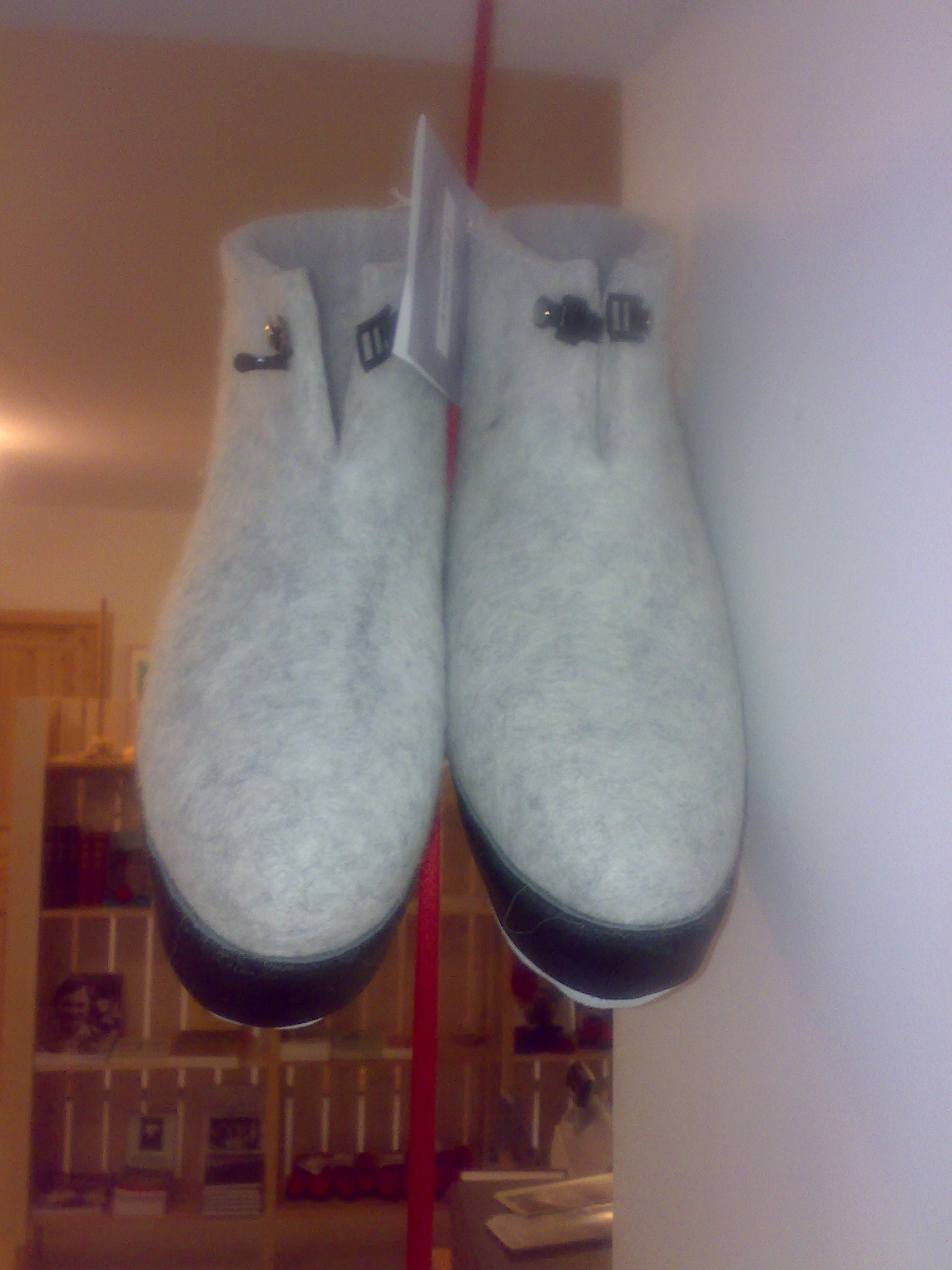 Norwegian felt slippers